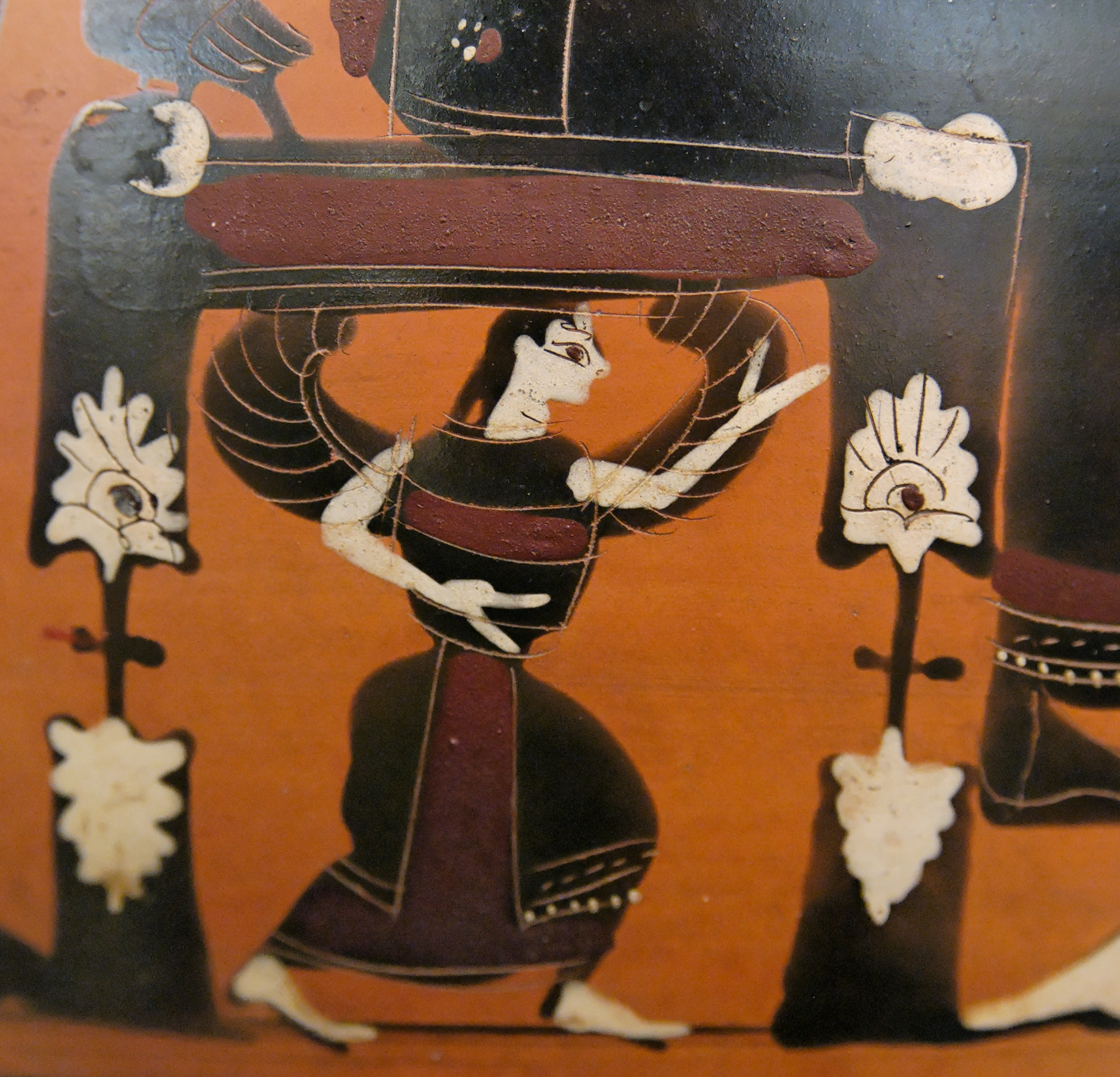 Side A: winged goddess (Metis?) under Zeus' throne, detail of a scene representing the birth of Athena.